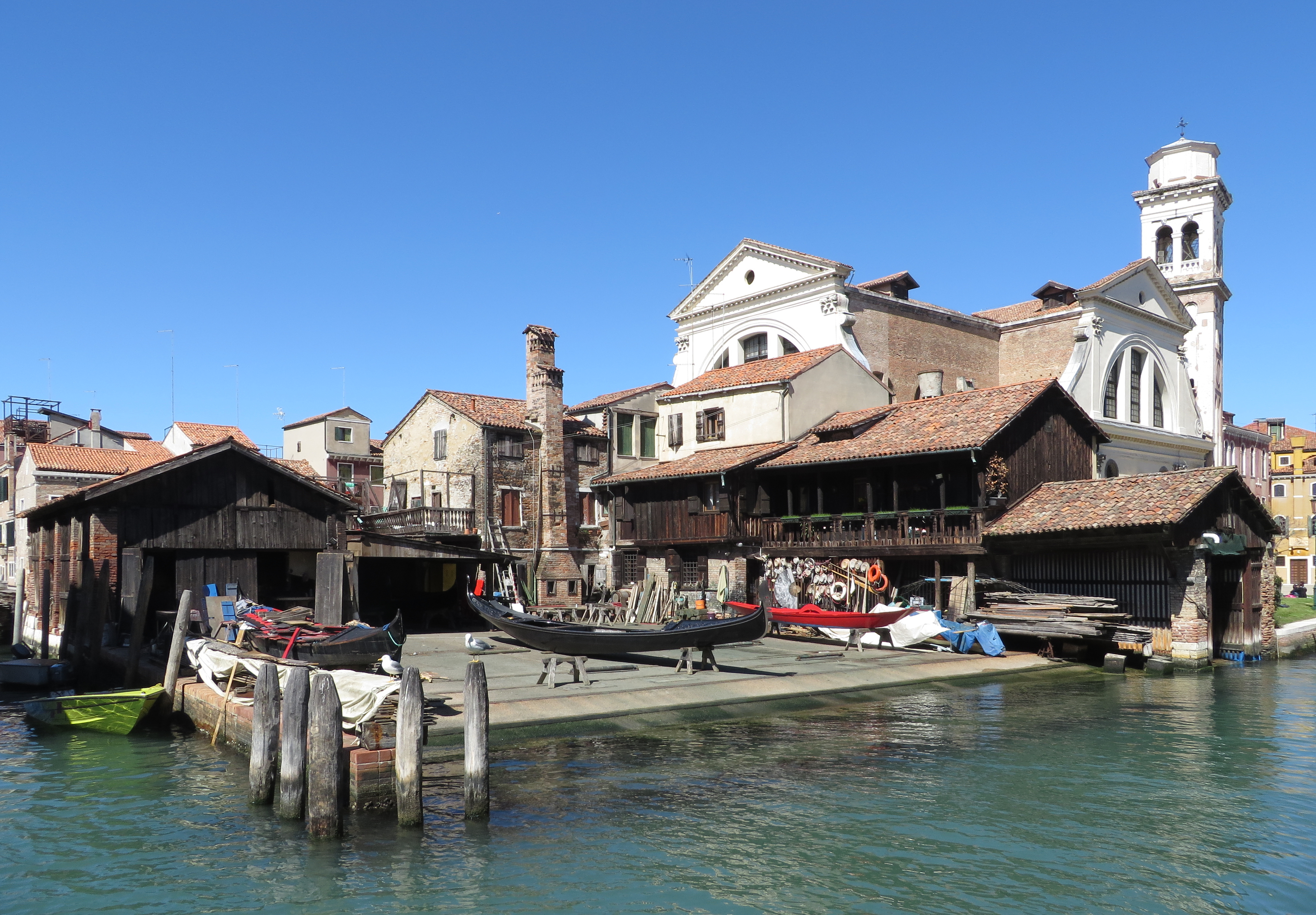 Gondola boatyard (Squero) at Campo San Trovaso, Venice